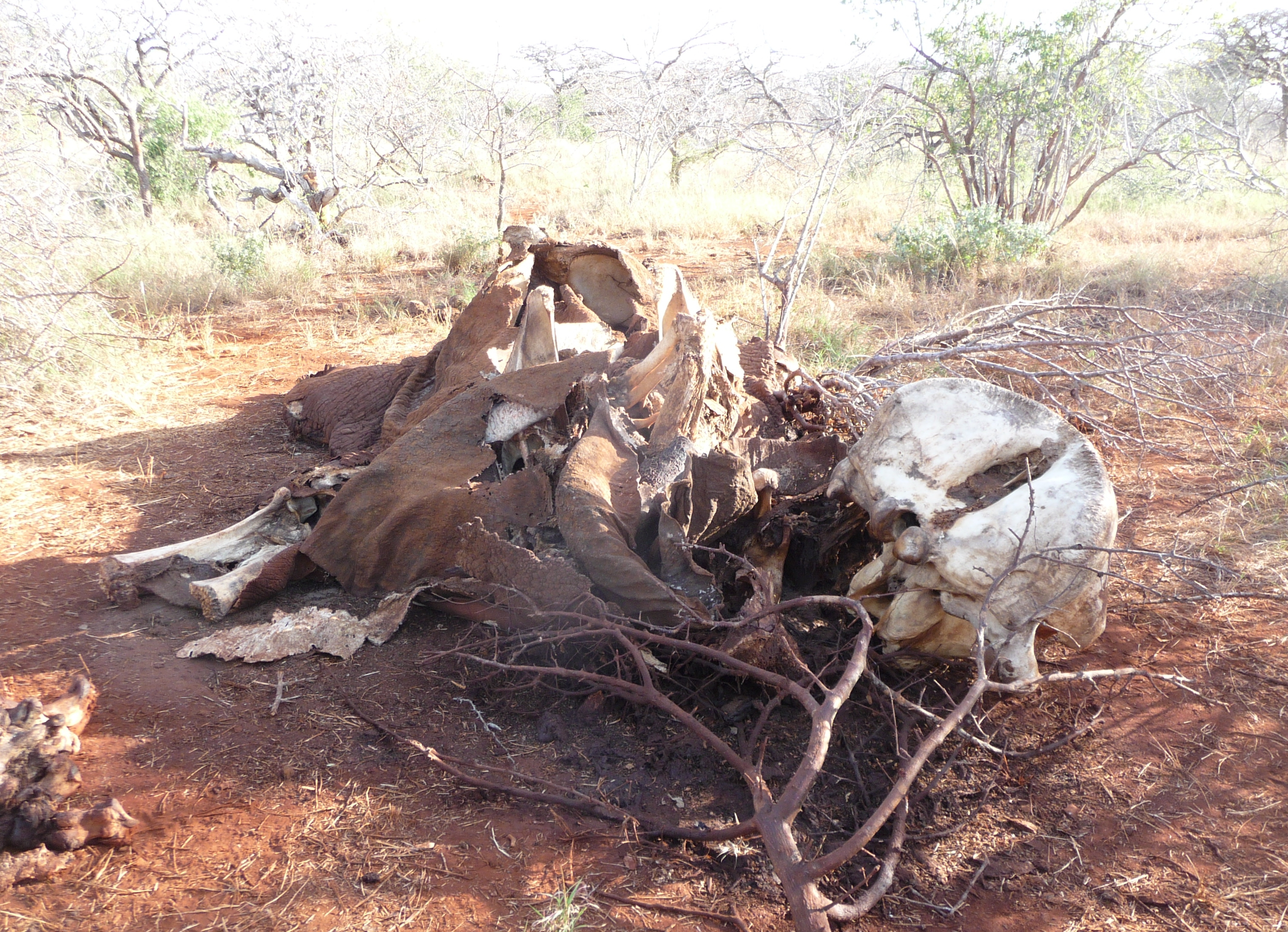 Elephant killed by illegal poachers, Voi area, Kenya